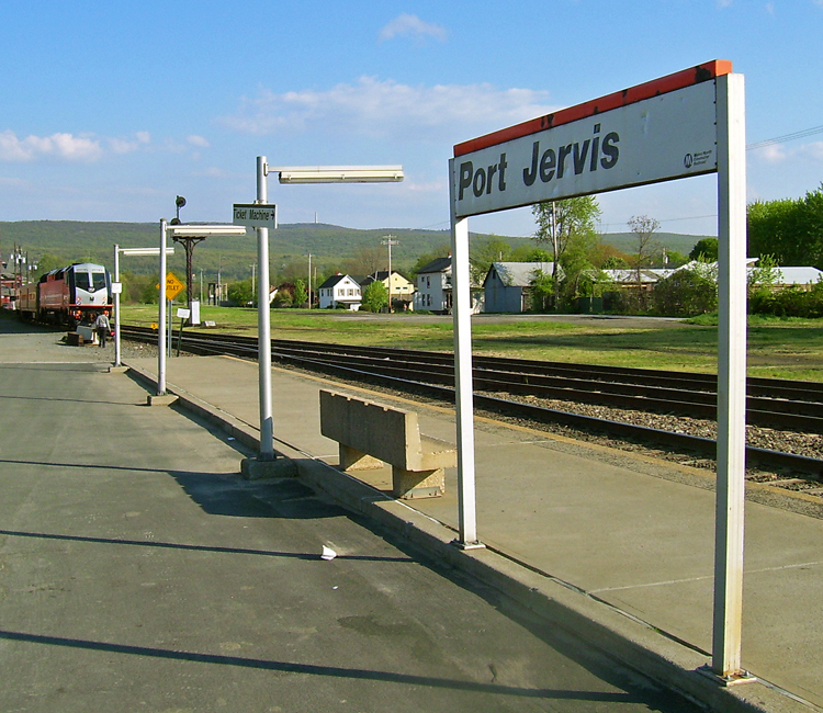 Photographed by Daniel Case 2006-05-06